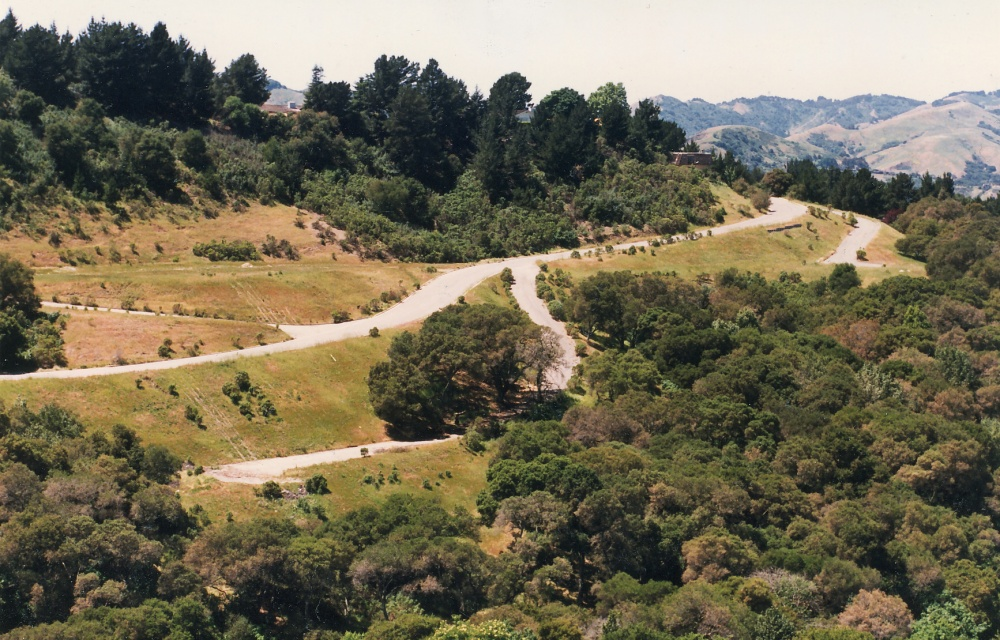 Alice Lane, Orinda, California, USA, shot from the west of the city on Zander Drive (near the Orinda/Moraga border)